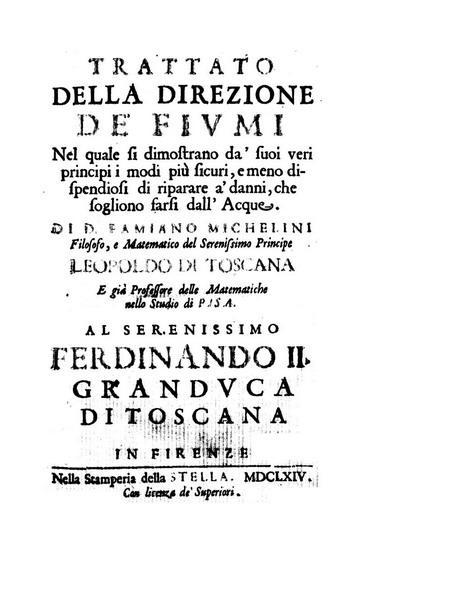 Title page